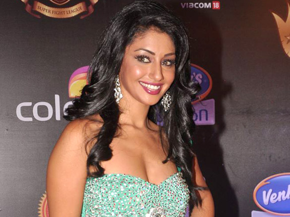 Mahek chahal super fight league event